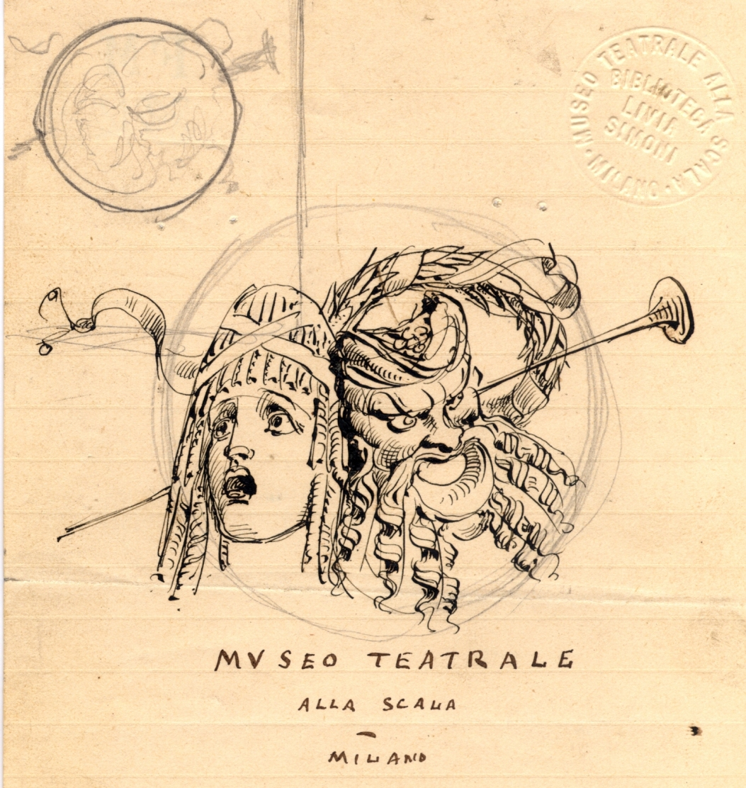 il primo logo del Museo